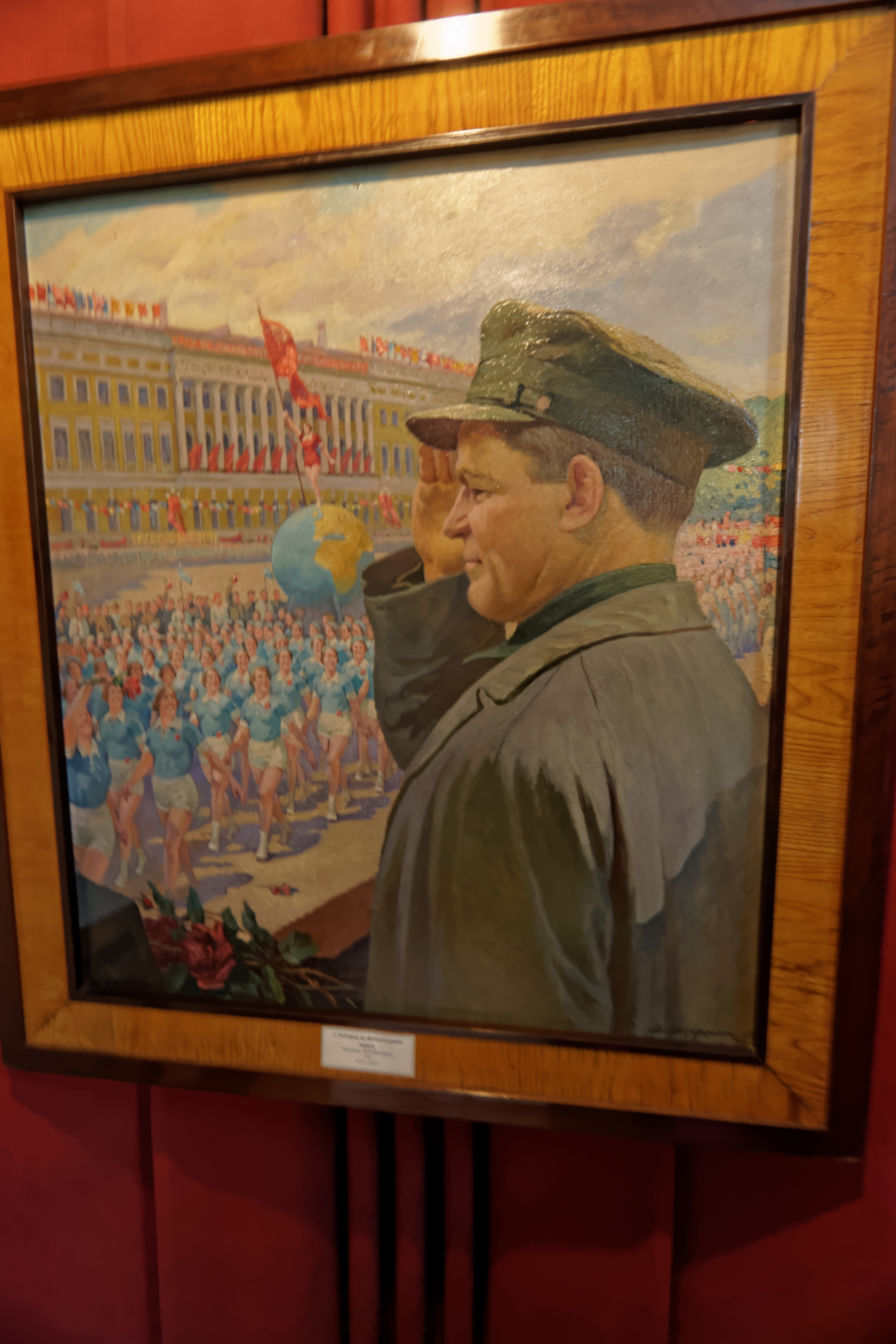 Санкт-Петербург / St Petersburg - Каменноостро́вский проспе́кт / Kamennoostrovsky Prospekt 26-28 - Museum Apartment S.M.Kirov (Серге́й Миро́нович Ки́ров)